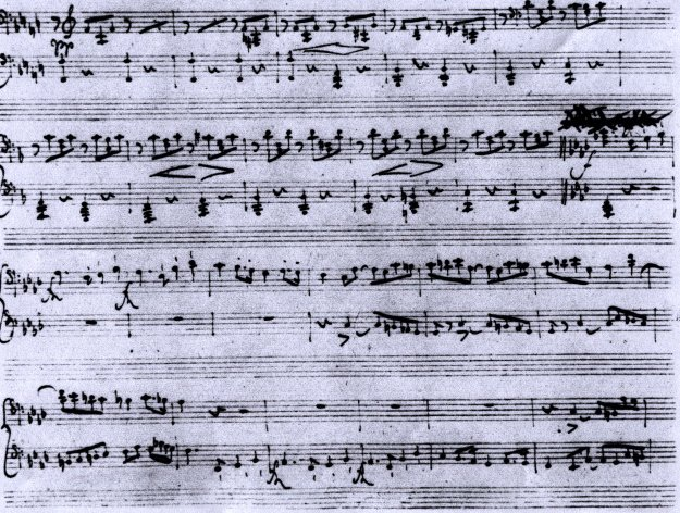 This is an autograph page from the manuscript of Franz Schubert's Fantasy in F Minor for Piano Four-hands, D. 940